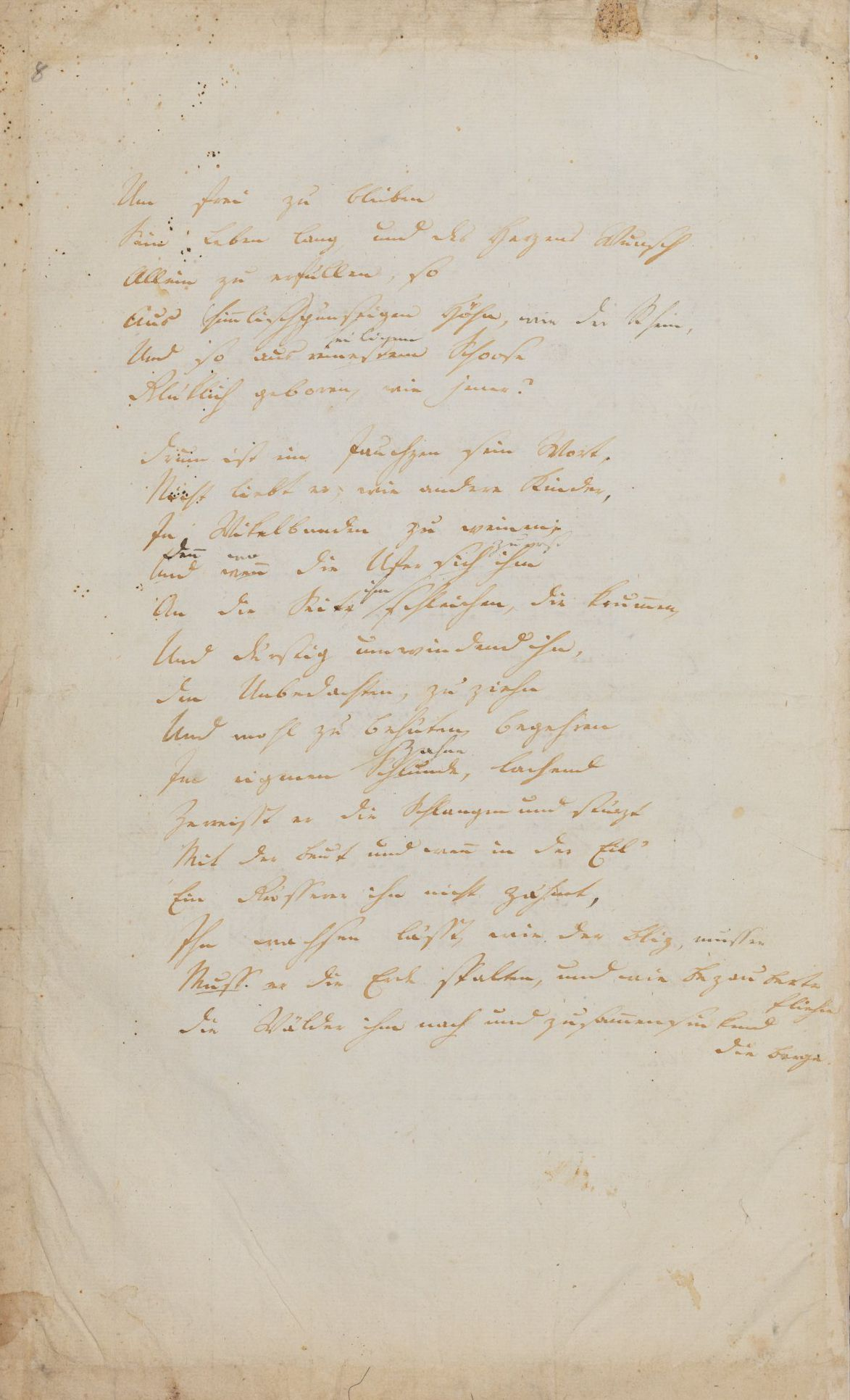 Manuscript of Friedrich Hölderlins poem "Der Rhein", Württembergische Landesbibliothek, page 4